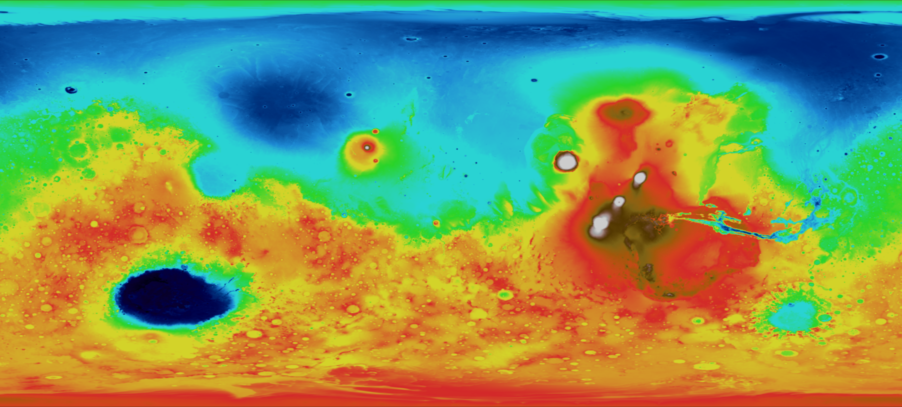 This map depicts topography, or surface features, of the planet Mars. In this image, white and red features are highest in relative elevation, while green and blue areas are lowest. This image was made possible by data from the Mars Orbiter Laser Altimeter (MOLA), which bounced a laser off the surface of the planet and calculated the distance traveled by the beam of light.